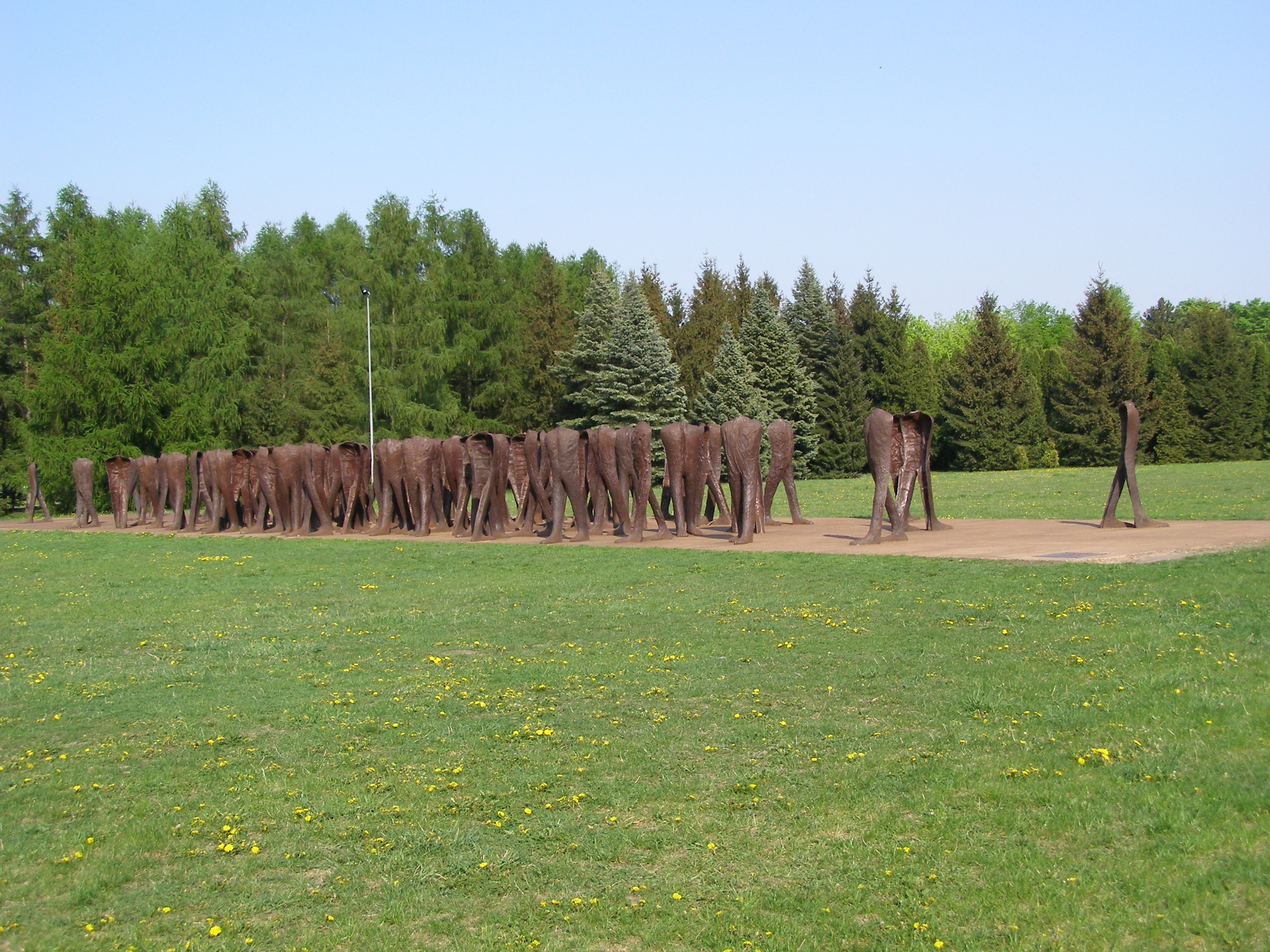 Poznań - sculpture by Magdalena Abakanowicz "Unrecognized" in Park Cytadela